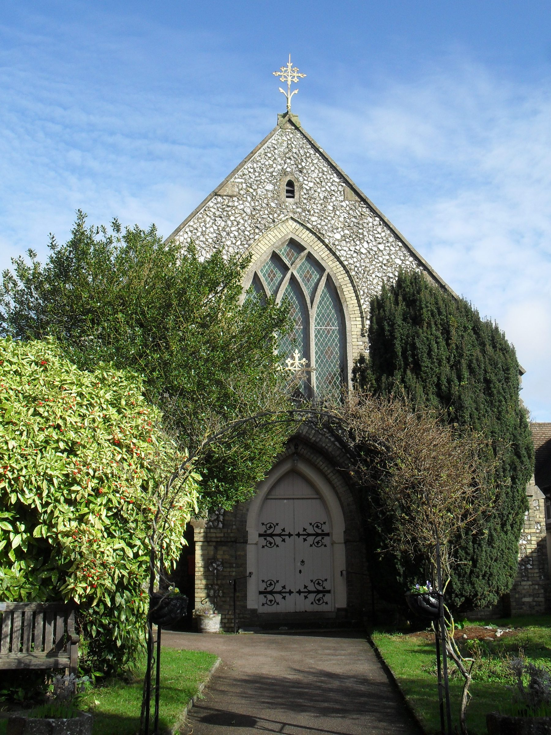 Steyning Methodist Church, High Street, Steyning, District of Horsham, West Sussex, England. A Gothic-style flint and yellow brick chapel built for Wesleyan Methodists in 1875–78.